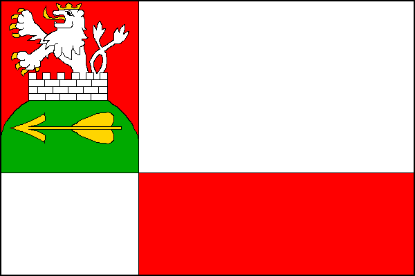 Municipal flag of Bezděz village, Česká Lípa District, Czech Republic.